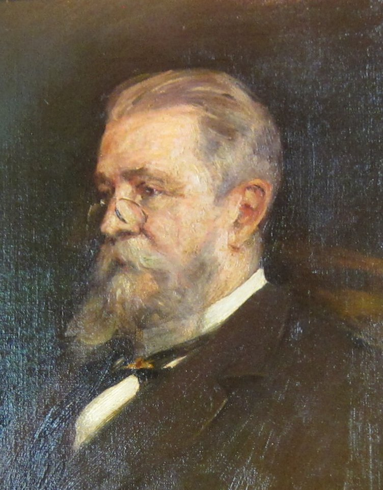 Detail of portrait of William Lowthian Green by Frederic Yates, The Pacific Club